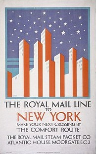 Royal Mail Lines poster advertising voyages to New York